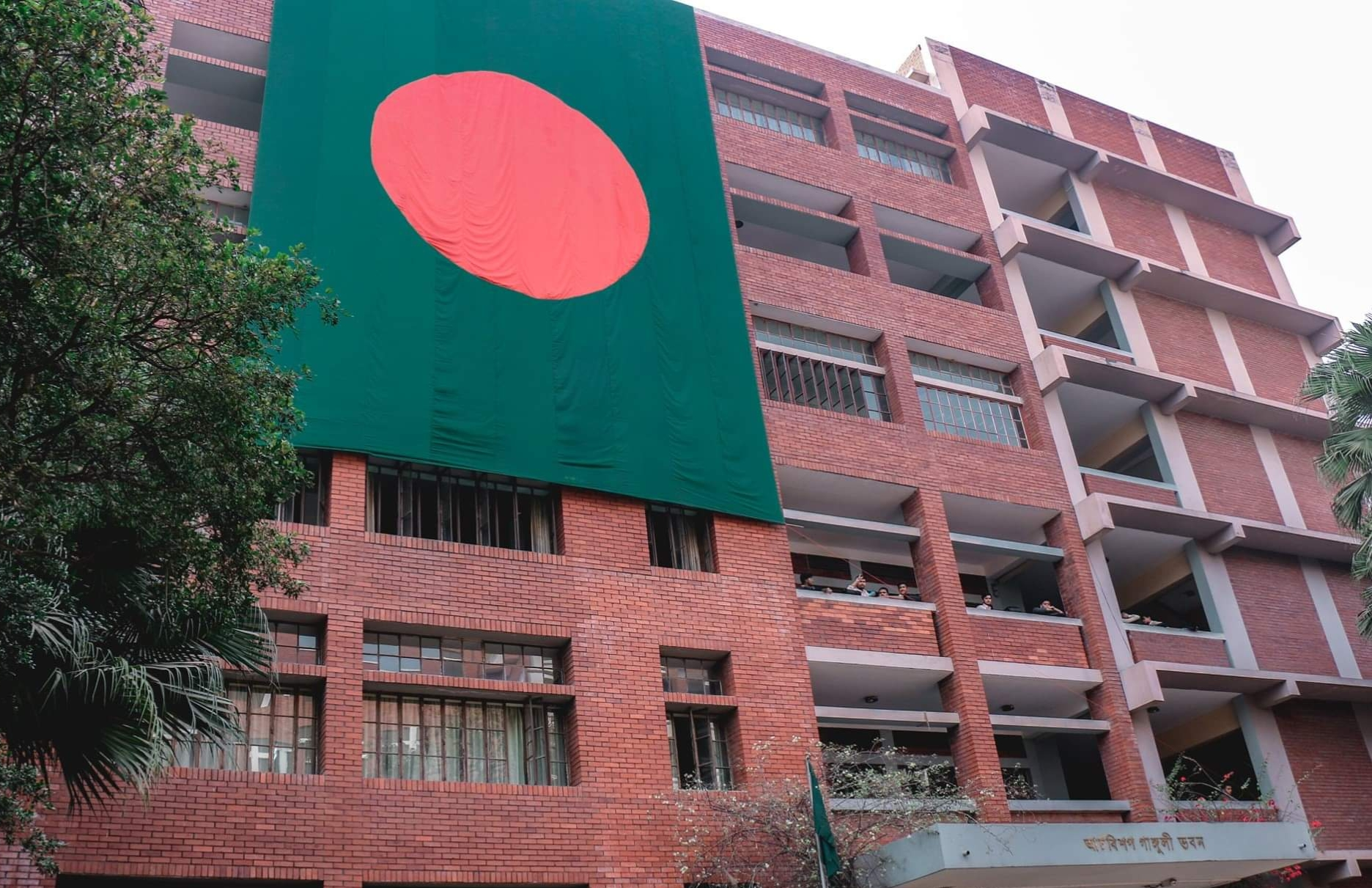 This is the Archbishop Ganguly Building of Notre Dame College